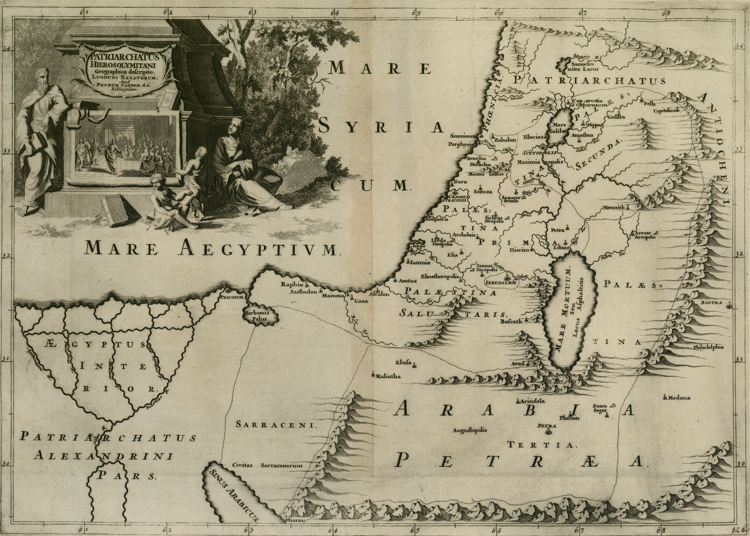 A map of the Land of Israel from 1729